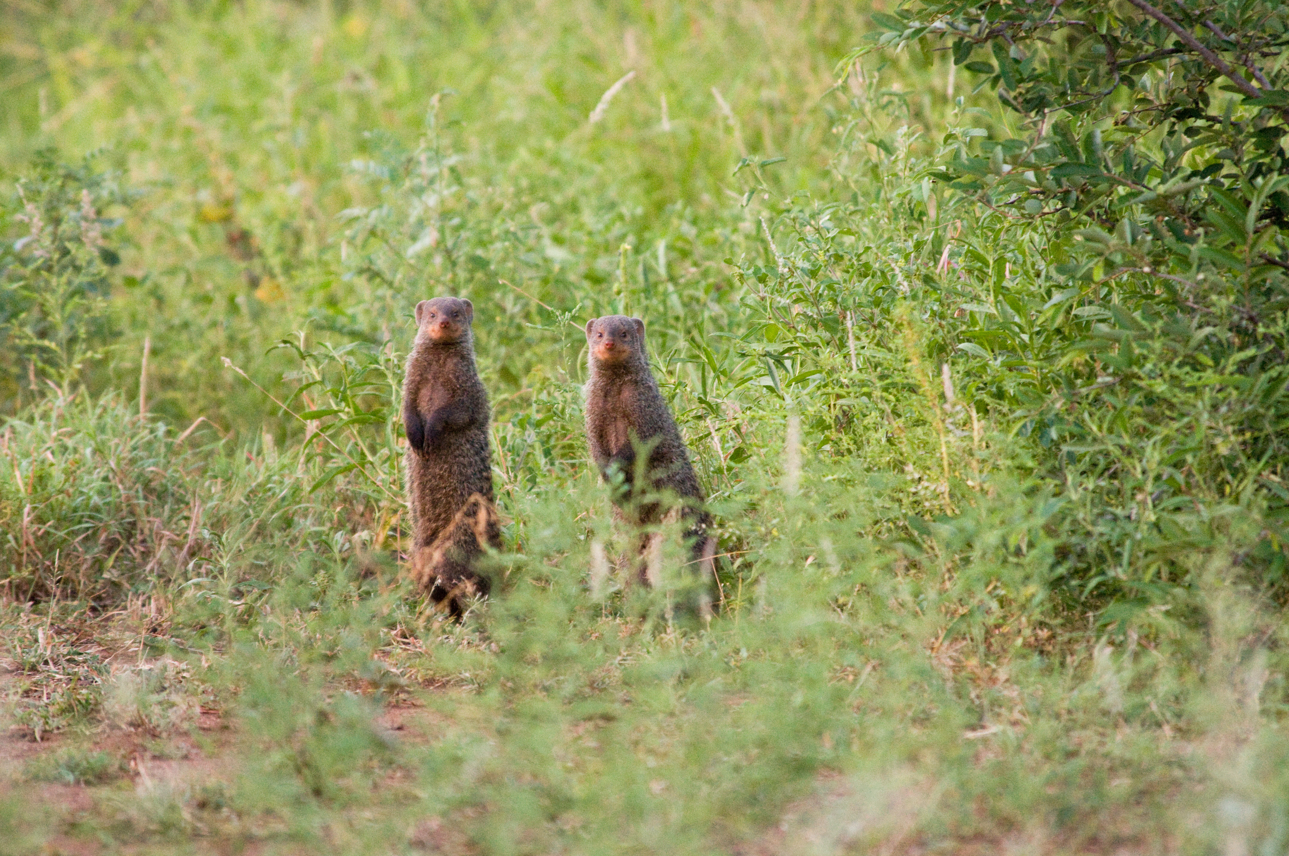 Banded Mongooses (Mungos mungo) Dysmorodrepanis 02:01, 29 May 2008 (UTC)